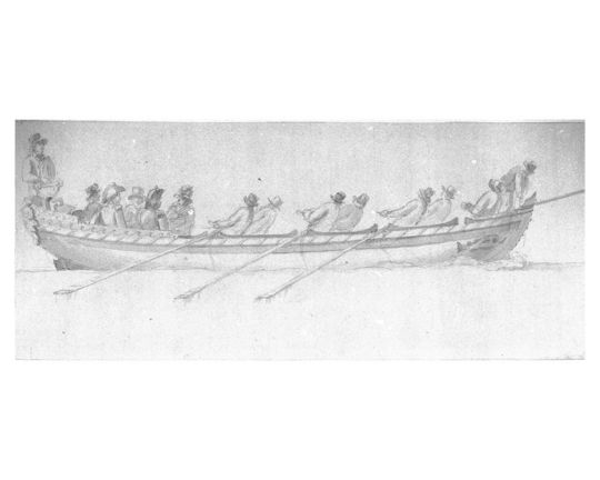 A naval barge with eight oarsmen; grey wash